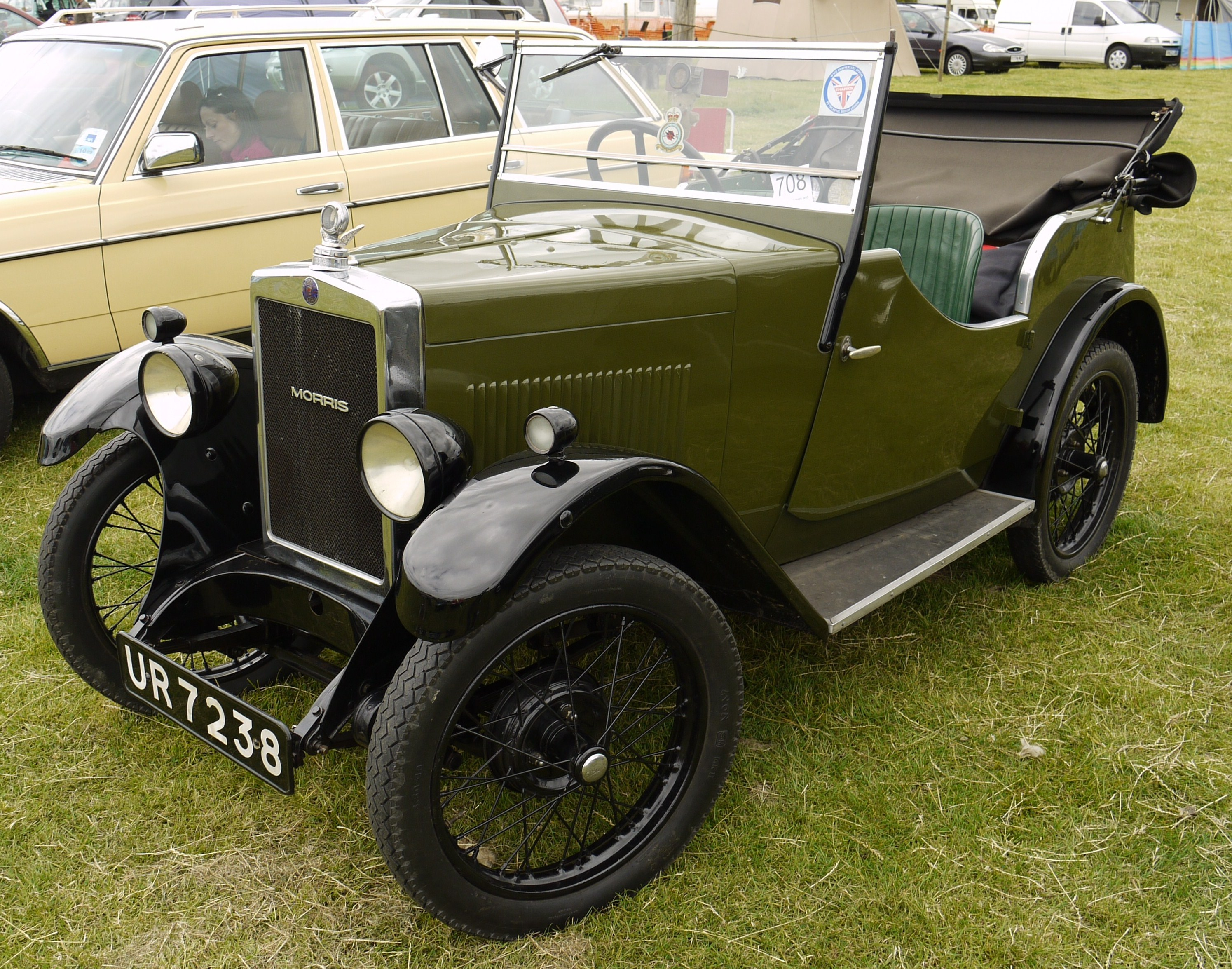 Panasonic G1 DVLA. 885 cc, Manf. 1930, first registered 10 July 1930